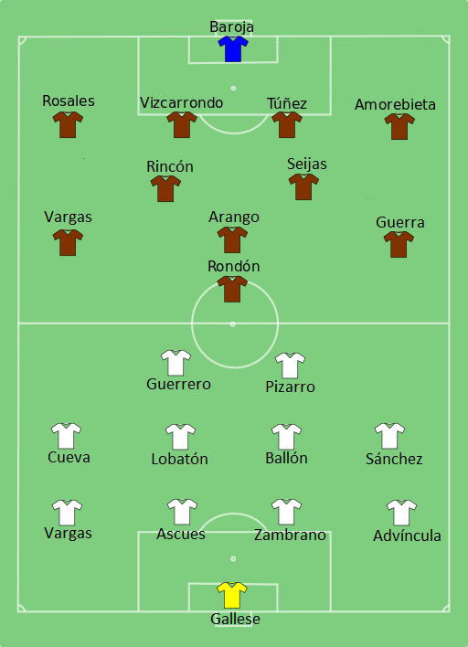 Match 12 of the 2015 Copa América.